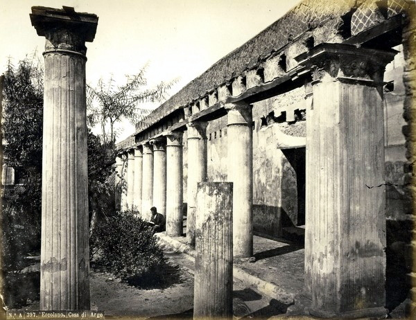 Roberto Rive (18?-1889), "# A 397. Herculaneum - House of Argo".